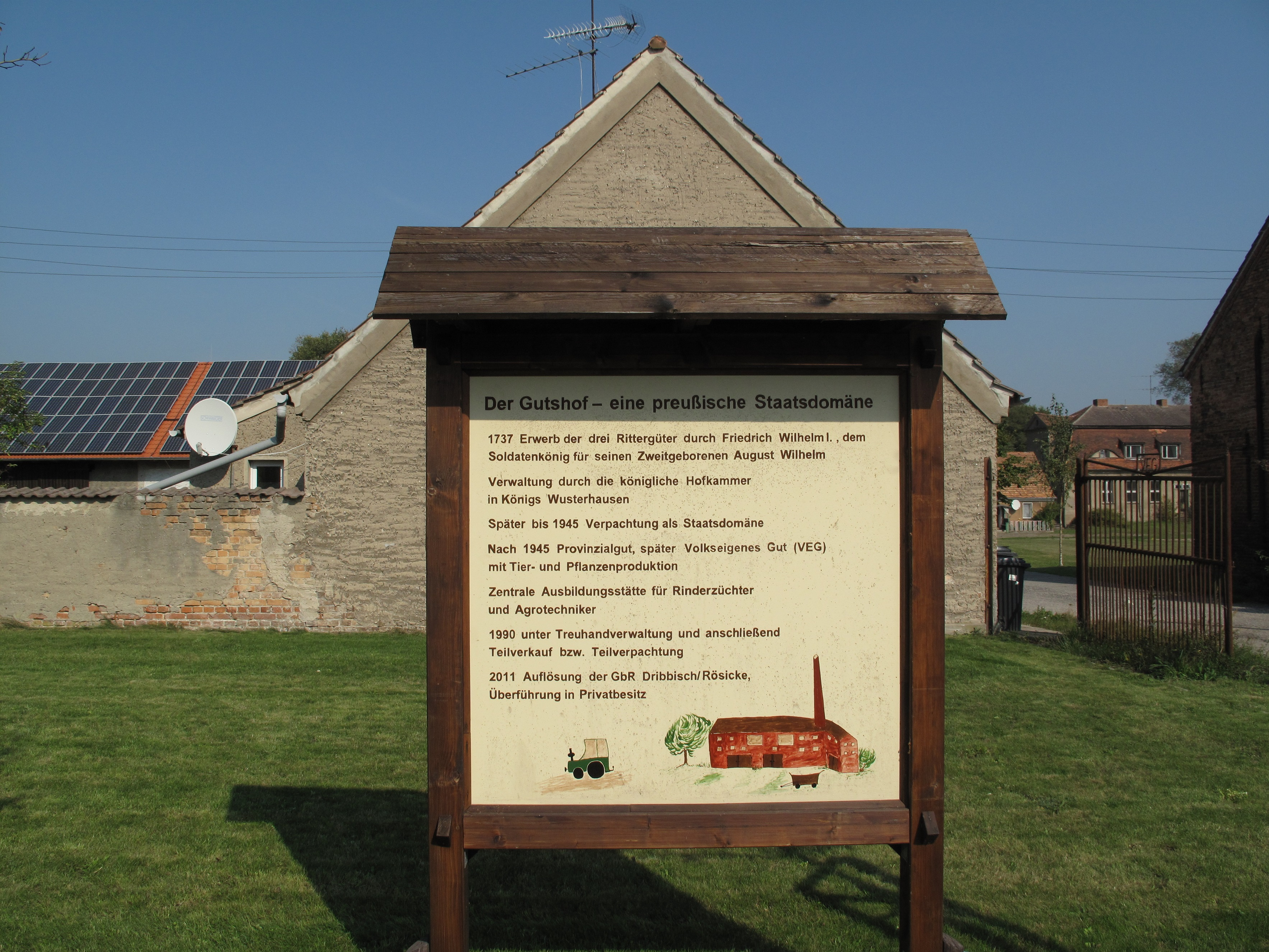 Informationboard „Gutshof Trebatsch“ (estate) in Trebatsch, a part of the municipality Tauche in the District Oder-Spree, Brandenburg, Germany. The former manor was bought in 1737 by the 'Soldier King' Frederick William I of Prussia and since then under state administration. In the GDR period it was Volkseigenes Gut (VEG) (German for: People-Owned Property) for animal und crop farming. After Germans reunification in 1990 it was partially privatized by the Treuhandanstalt and in 2011 entirely privatized.